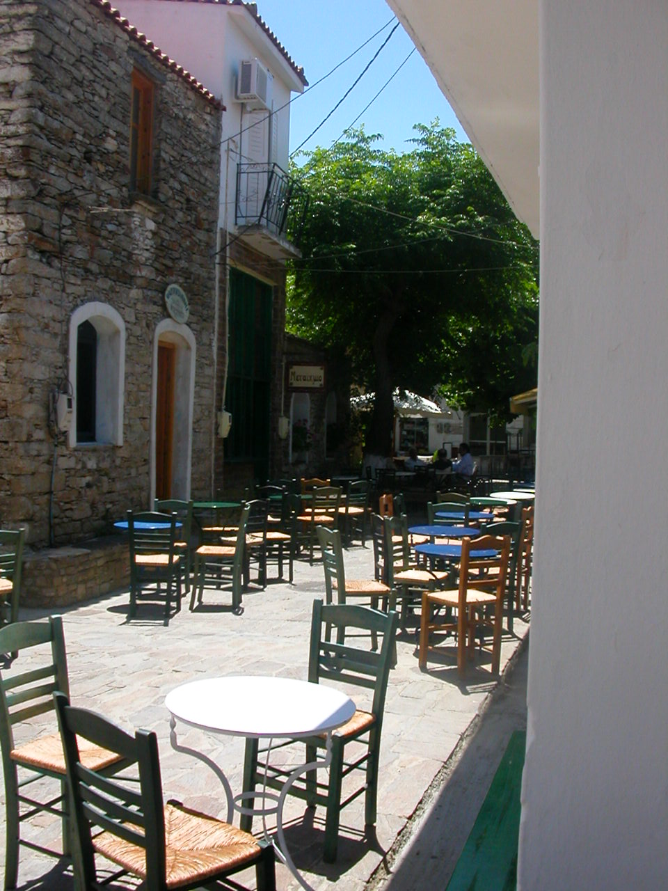 village of Christos Raches, Ikaria, Greece